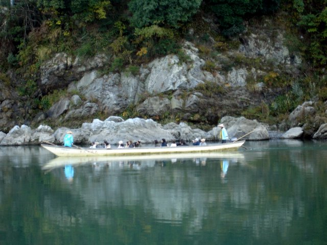 A skilled boatmen navigates a boat of tourists on the Tenryuu River in Hamamatsu.